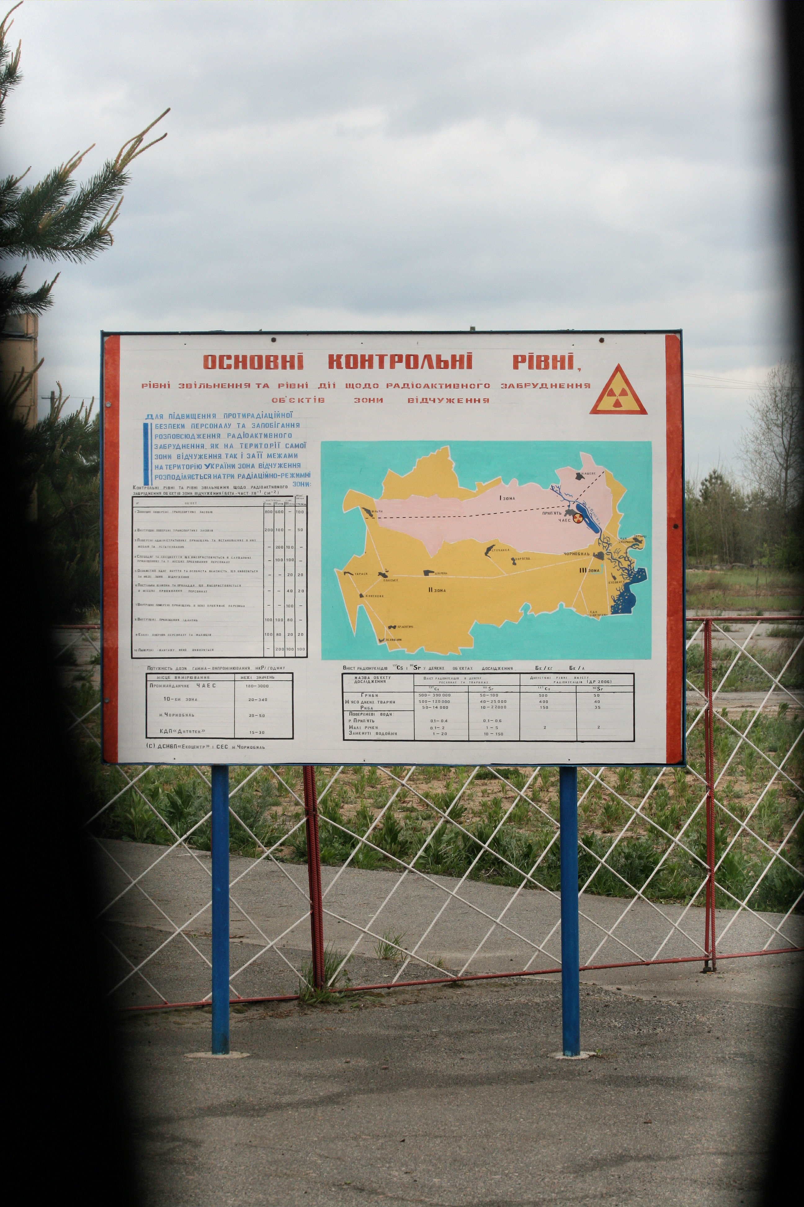 A signboard by the Chernobyl contamination zone gate.